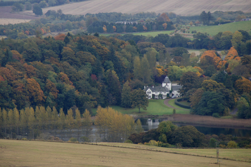 The small settlement of Thriepley, Angus, Scotland, on the southern side of the Sidlaw Hills with Pitlyal Loch in the foreground.